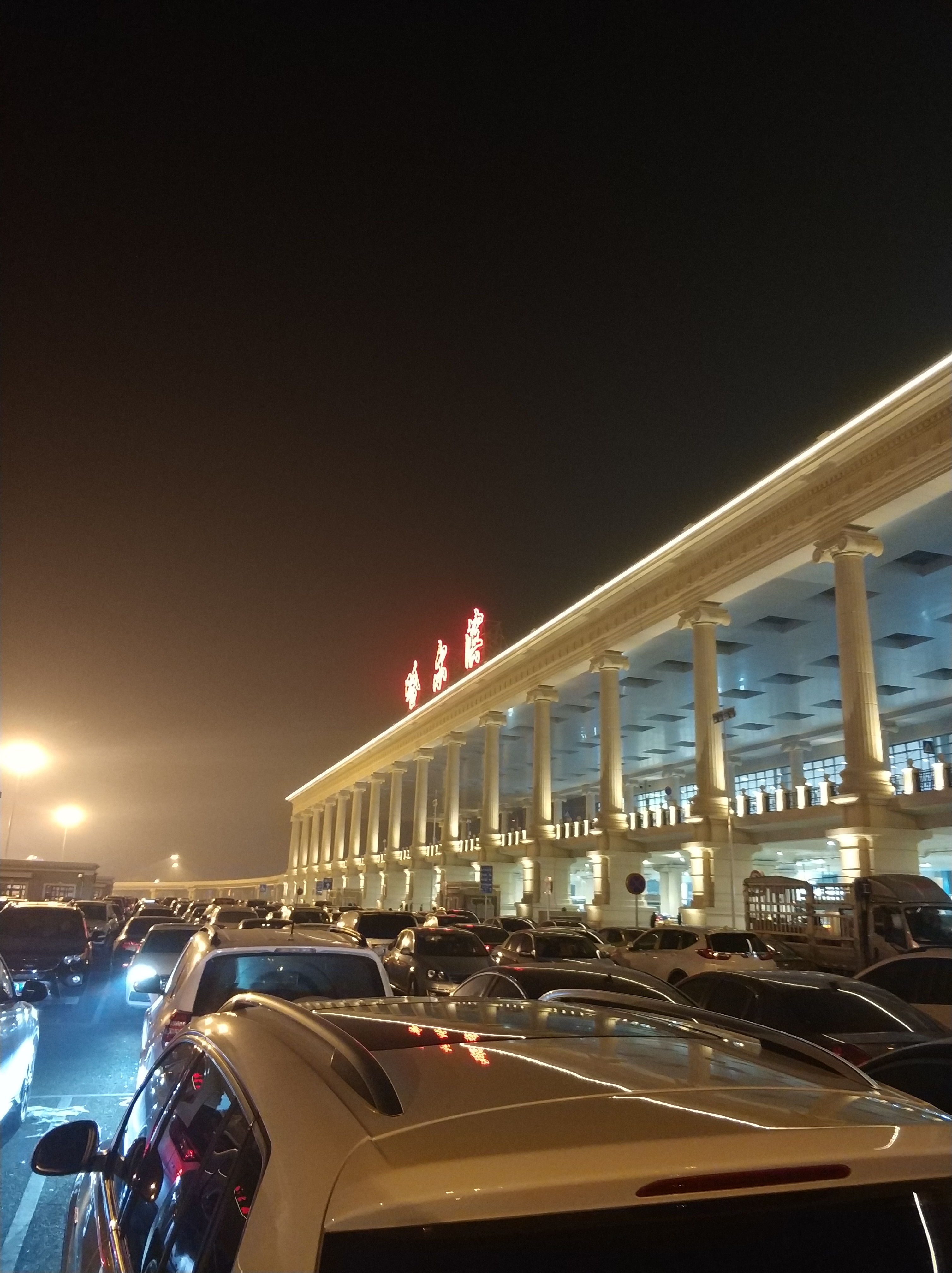 The main hall (Terminal 2 for domestic travel) of Harbin Taiping International Airport